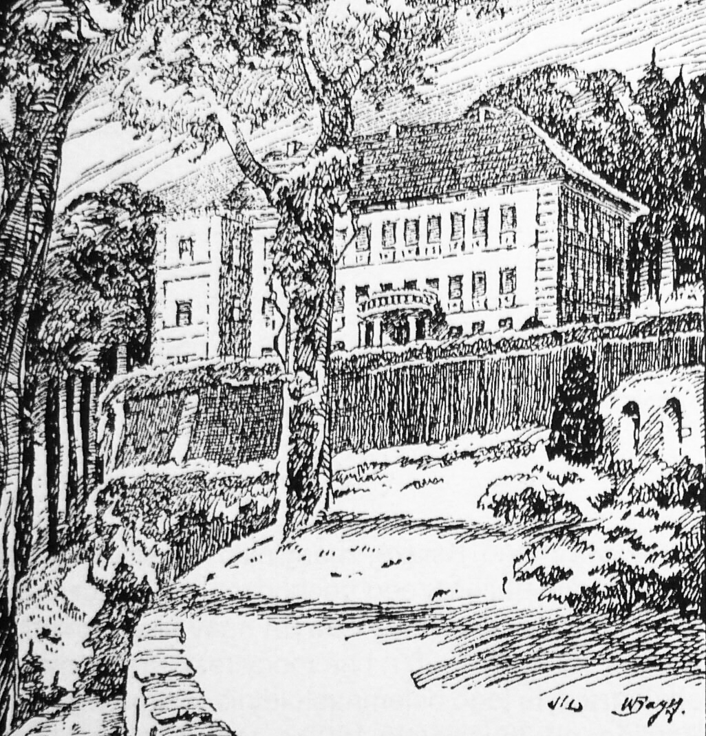 View of castle in Skała